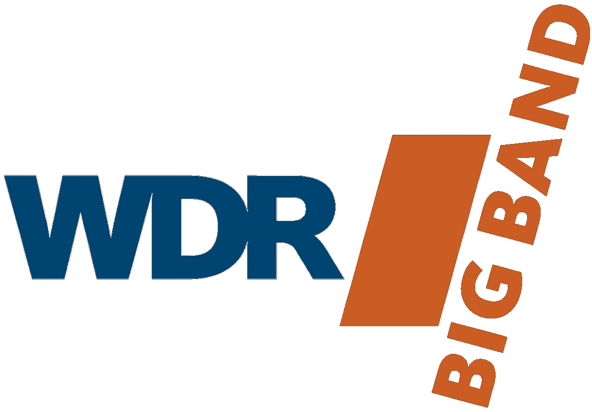 This is the Logo of WDR BigBand.